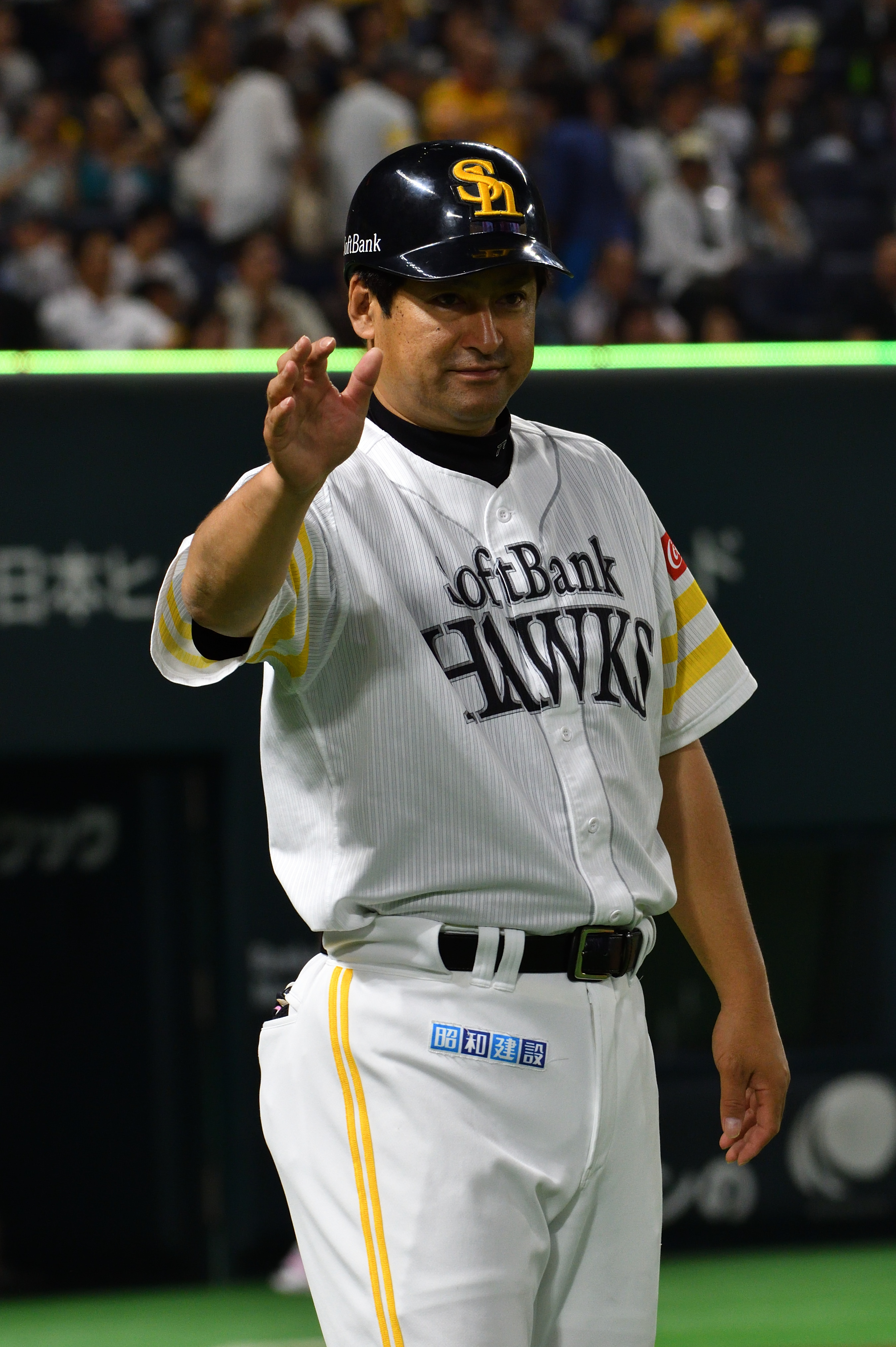 Noriyoshi Omichi, coach of the Fukuoka SoftBank Hawks, at Fukuoka Dome